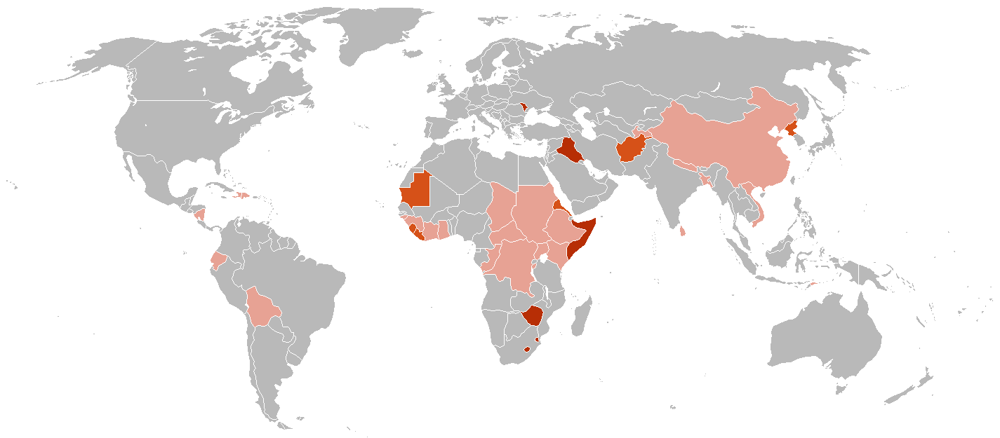 37 countries requiring external assistance according to FAO. Exceptional shortfall in aggregate food production/supplies Widespread lack of access Severe localized food insecurity